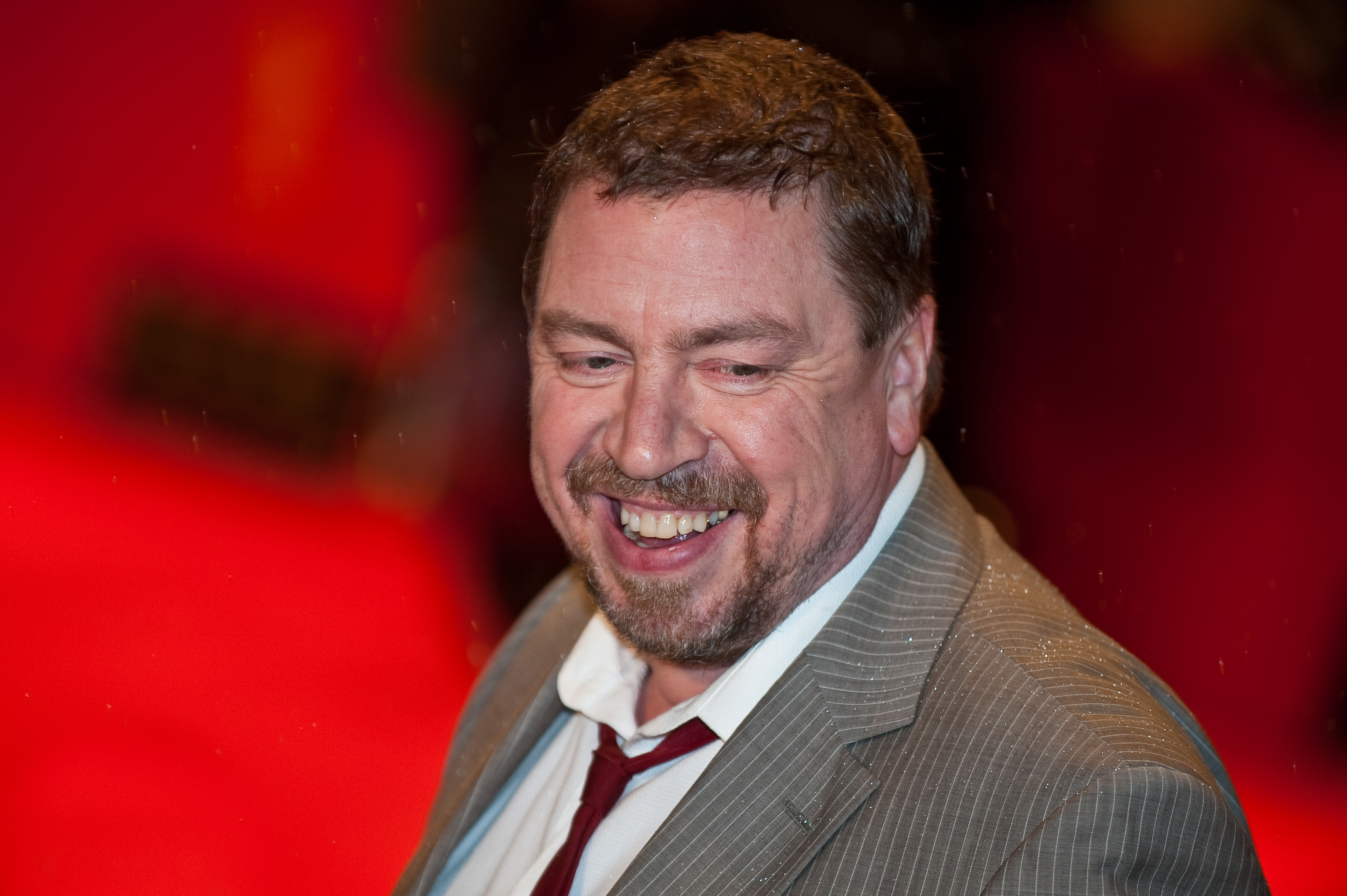 German actor Armin Rohde arriving at the opening of the 60th Berlin International Film Festival